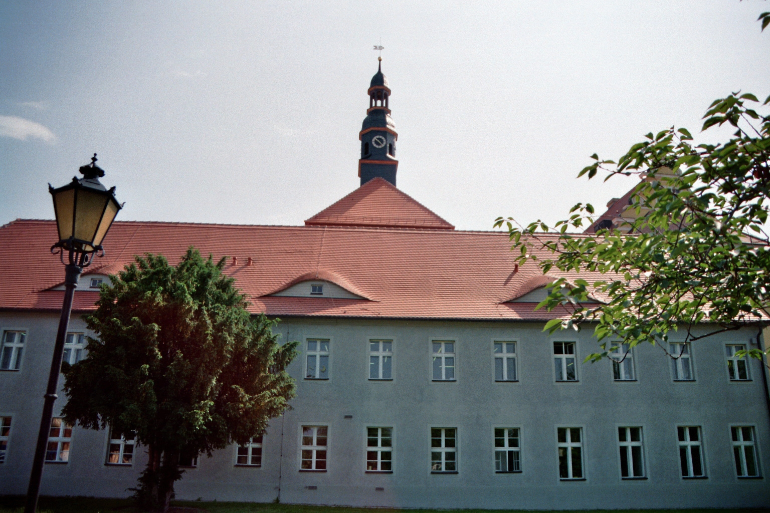 Lübben Castle in Lübben, Landkreis Dahme-Spreewald, Brandenburg, Germany.